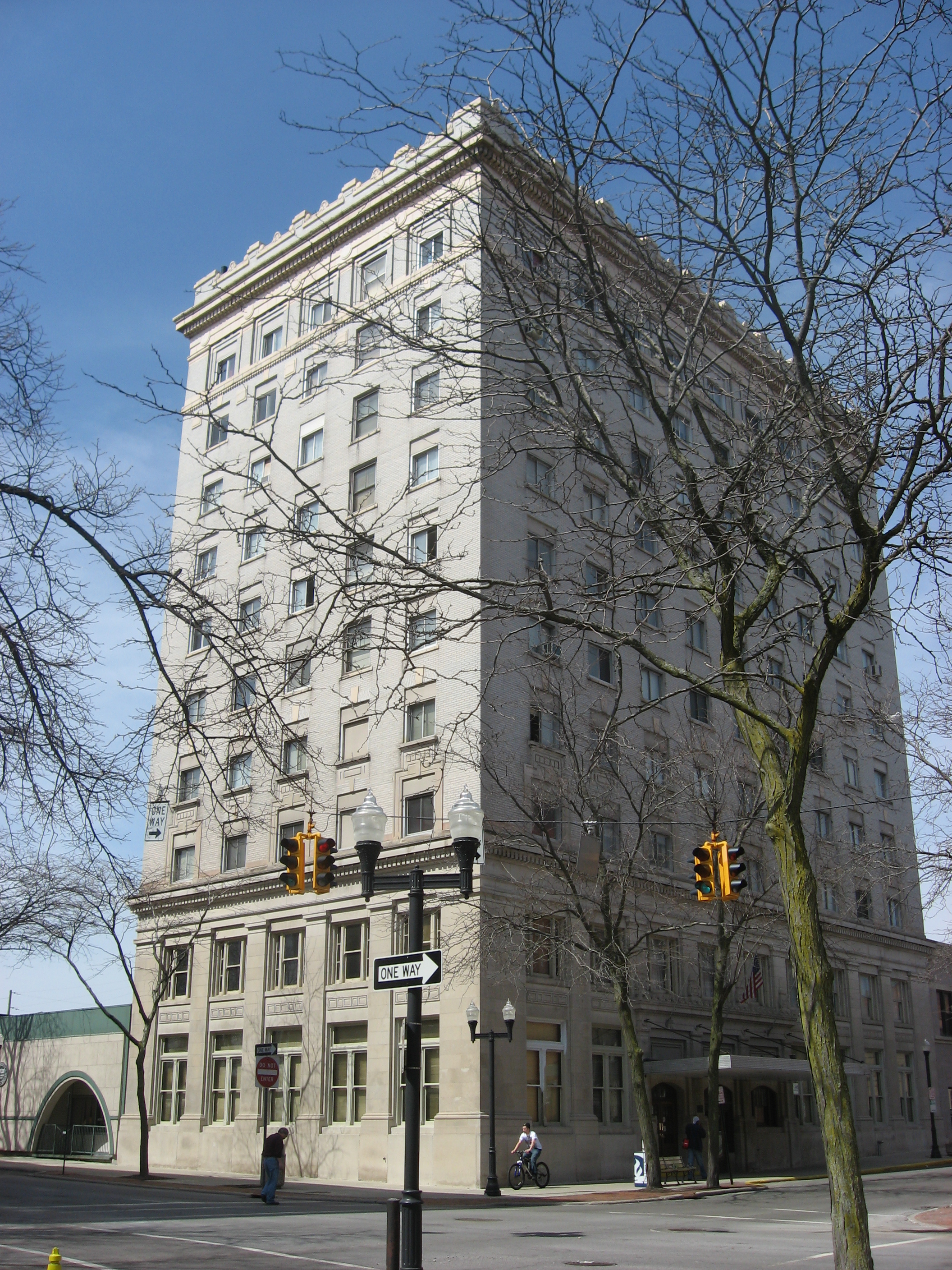 Front and southern side of the Hotel Argonne, located at 201 N. Elizabeth Street in Lima, Ohio, United States. Built in 1919, it is listed on the National Register of Historic Places.